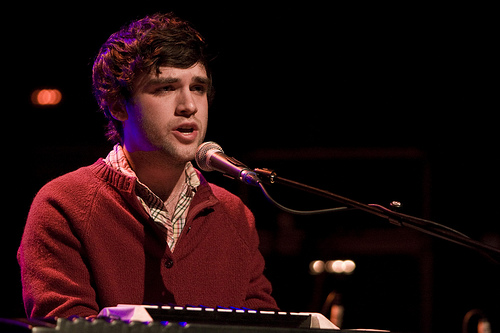 Chris Garneau, February 2008